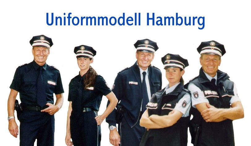 Policeuniform Hamburg